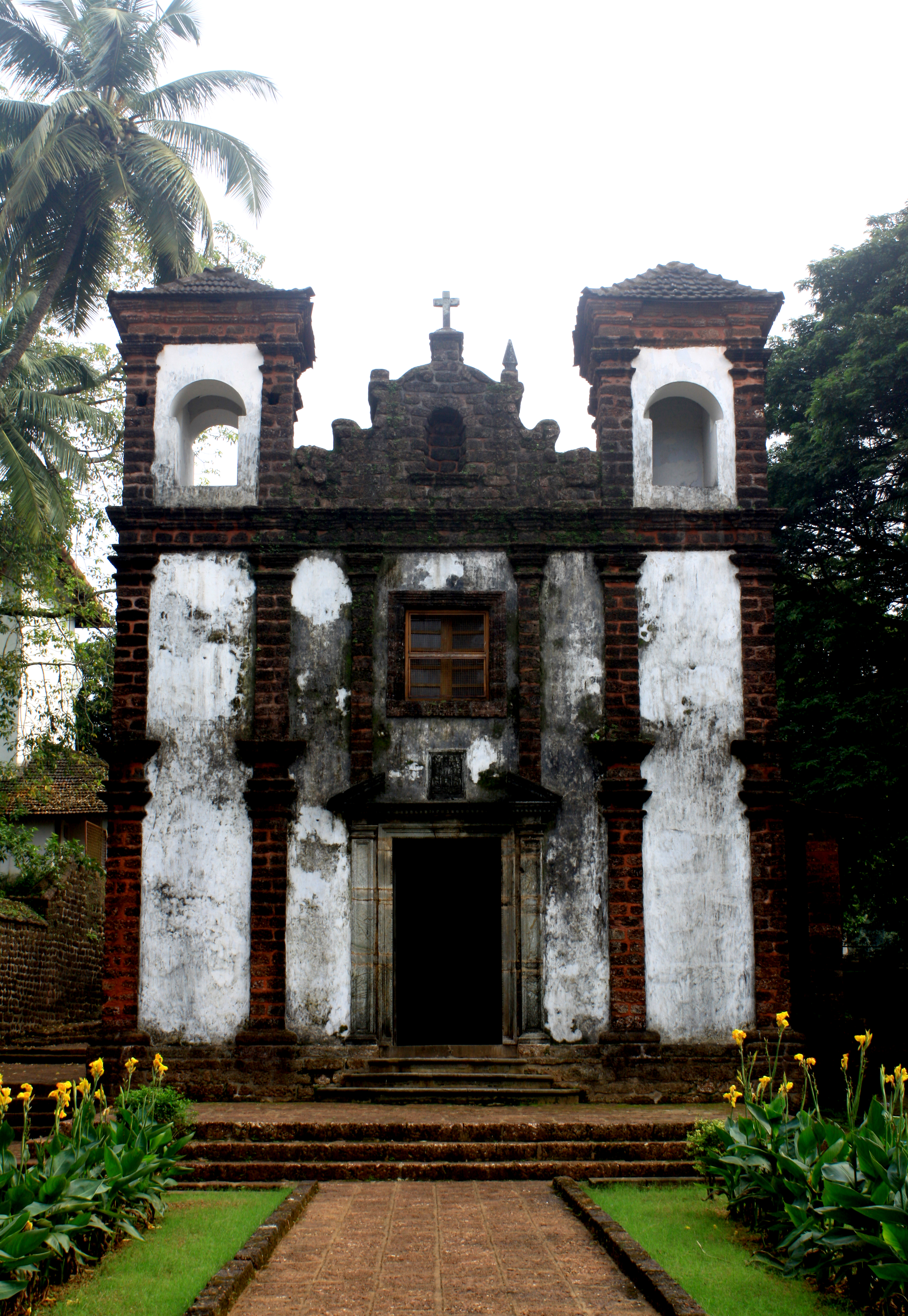 Saint Catherine's Chapel in Velha Goa, Goa, India